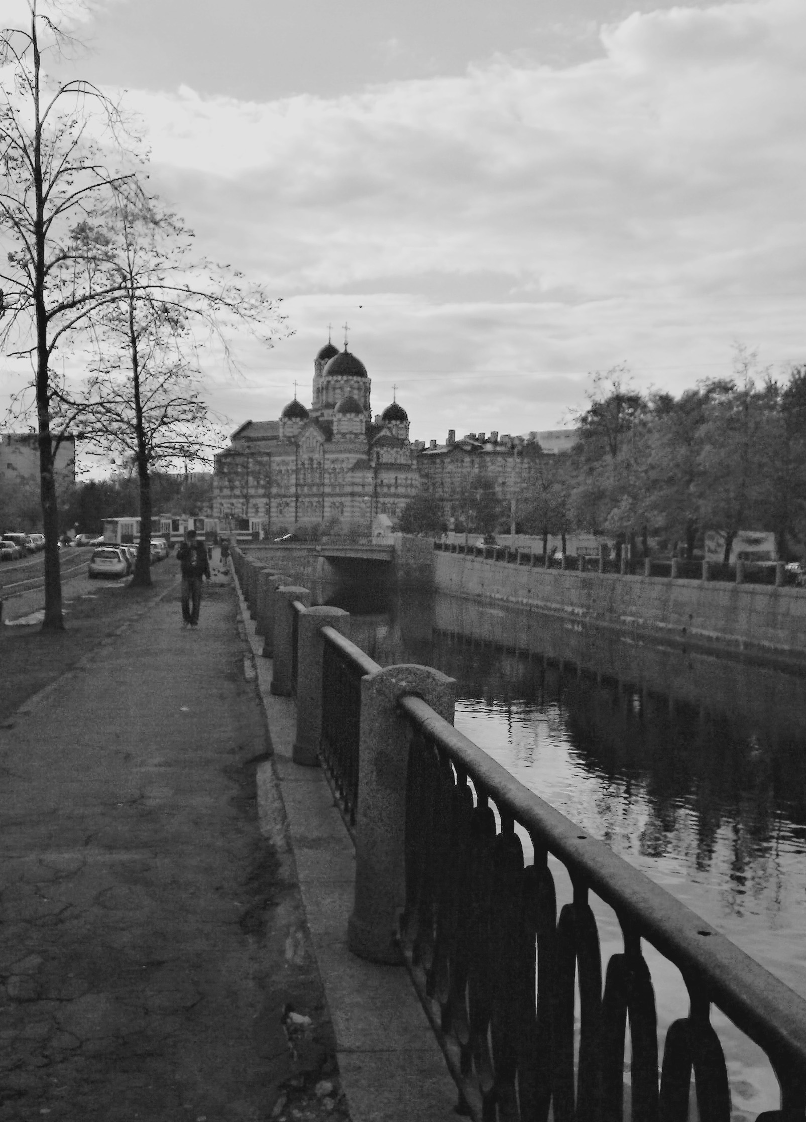 Embankment of the Karpovka river. There are the Karpovka bridge and the Ioannovsky Convent in the distance.